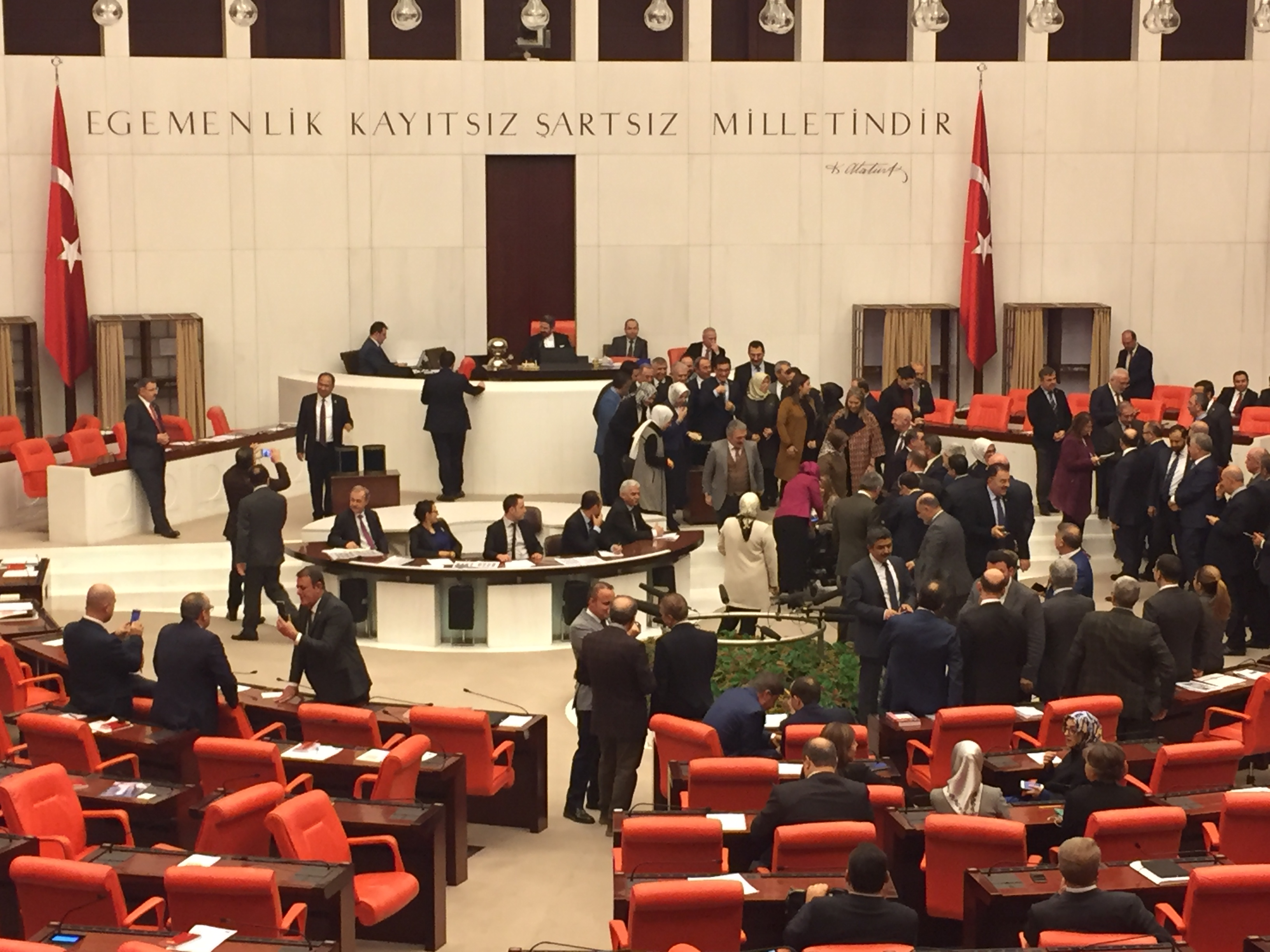 MPs voting for constitutional changes, Turkey, 2017